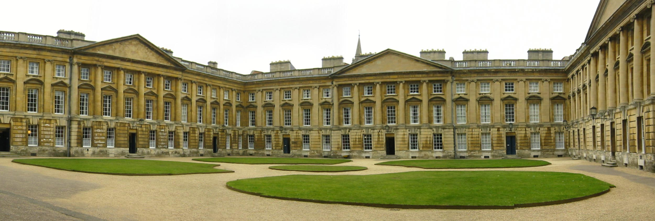 Panoramic photo of Peckwater Quadrangle, Christ Church, Oxford